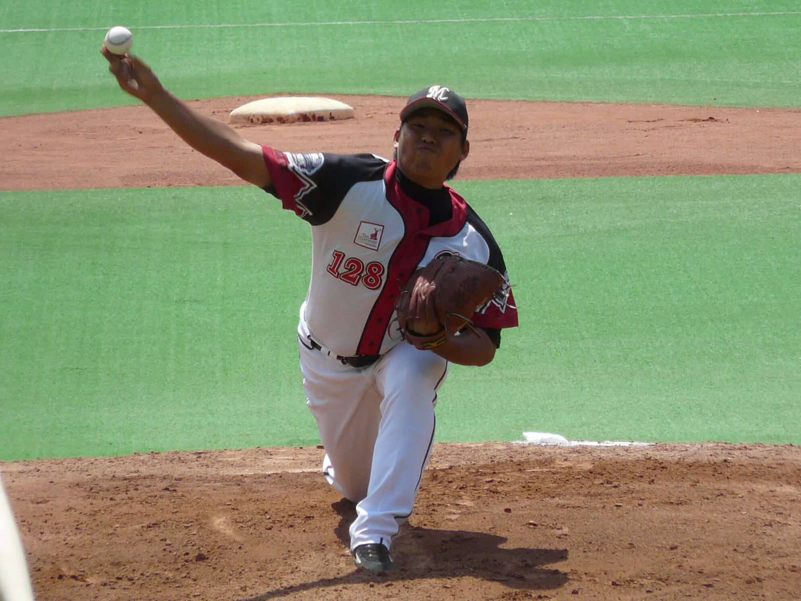 Akira Suzue